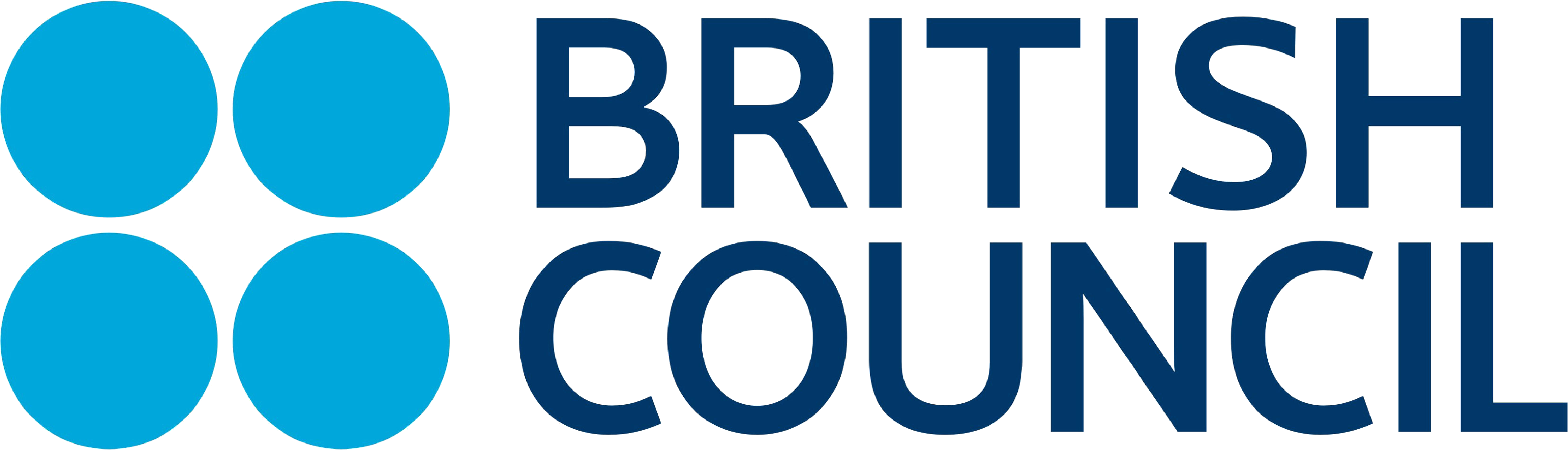 The British Council logo.